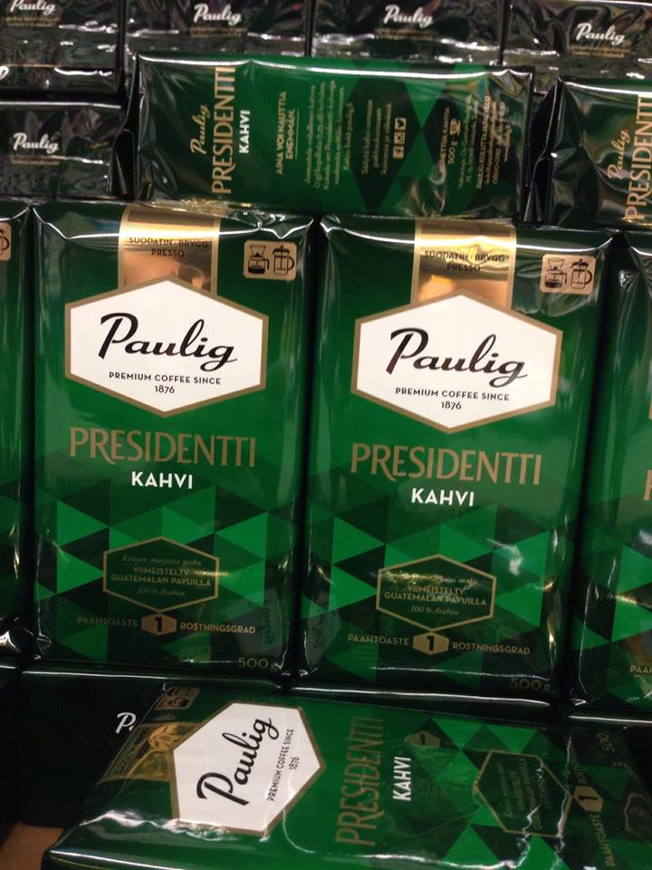 President coffee